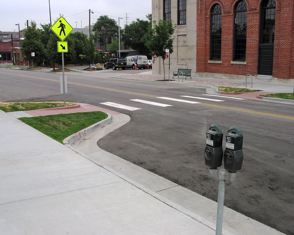 Bulb outs at a midblock crosswalk in Canada (likely in British Columbia)